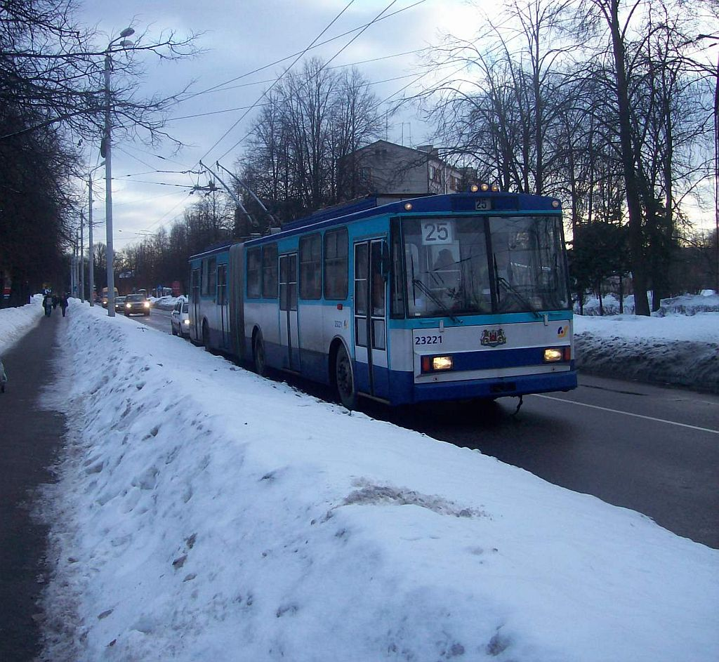 Trolleybus Škoda 15Tr02/6 in Riga